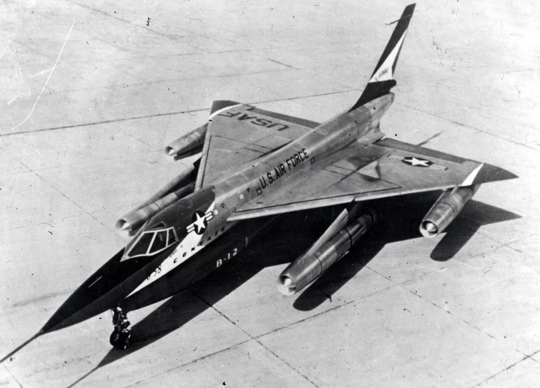 Convair XB-58 Hustler 3-4 front top view (SN 55-0660)